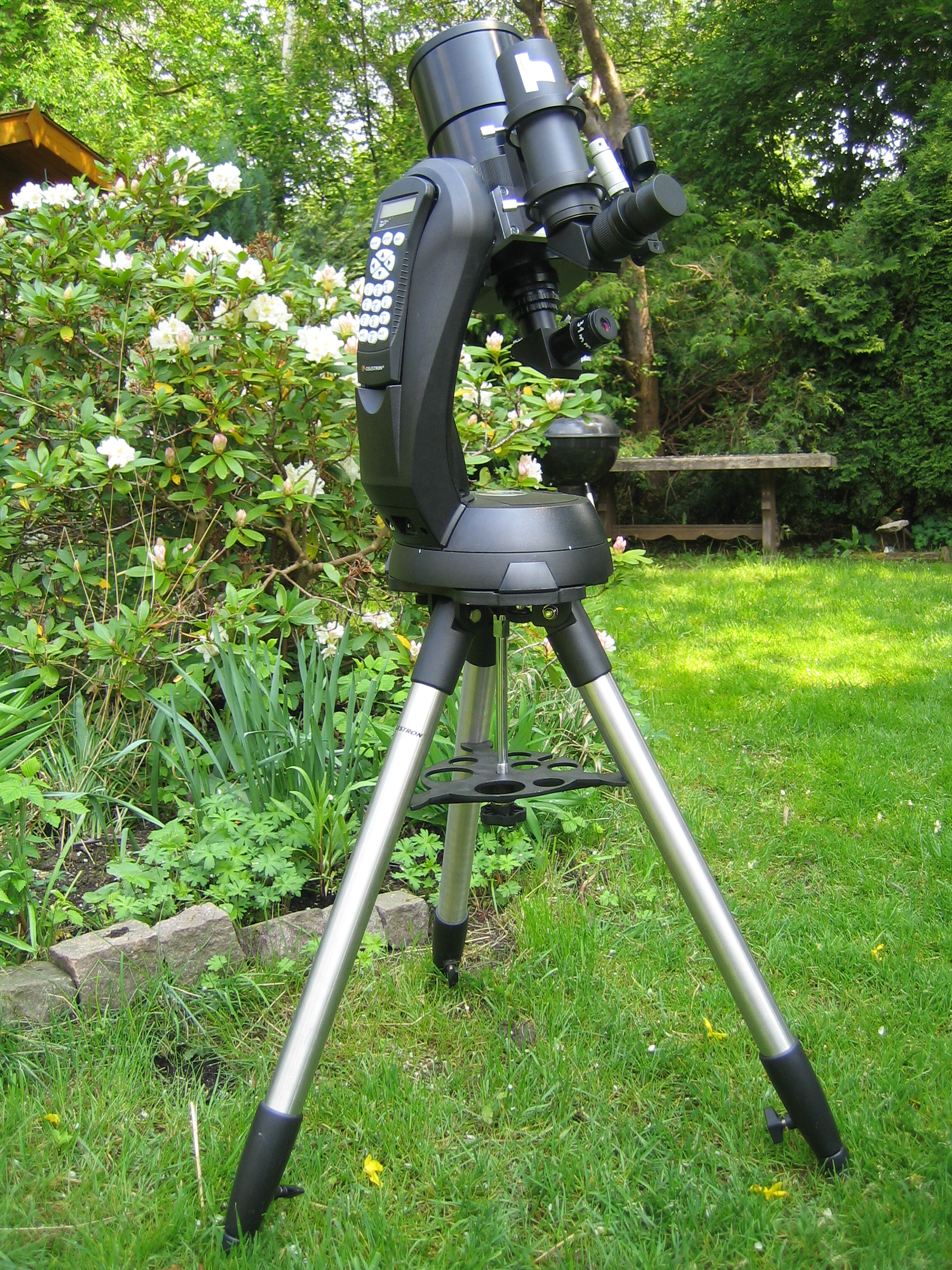 Celestron Mount "Nexstar 2" whith Russian Telescope MTO 1000/10